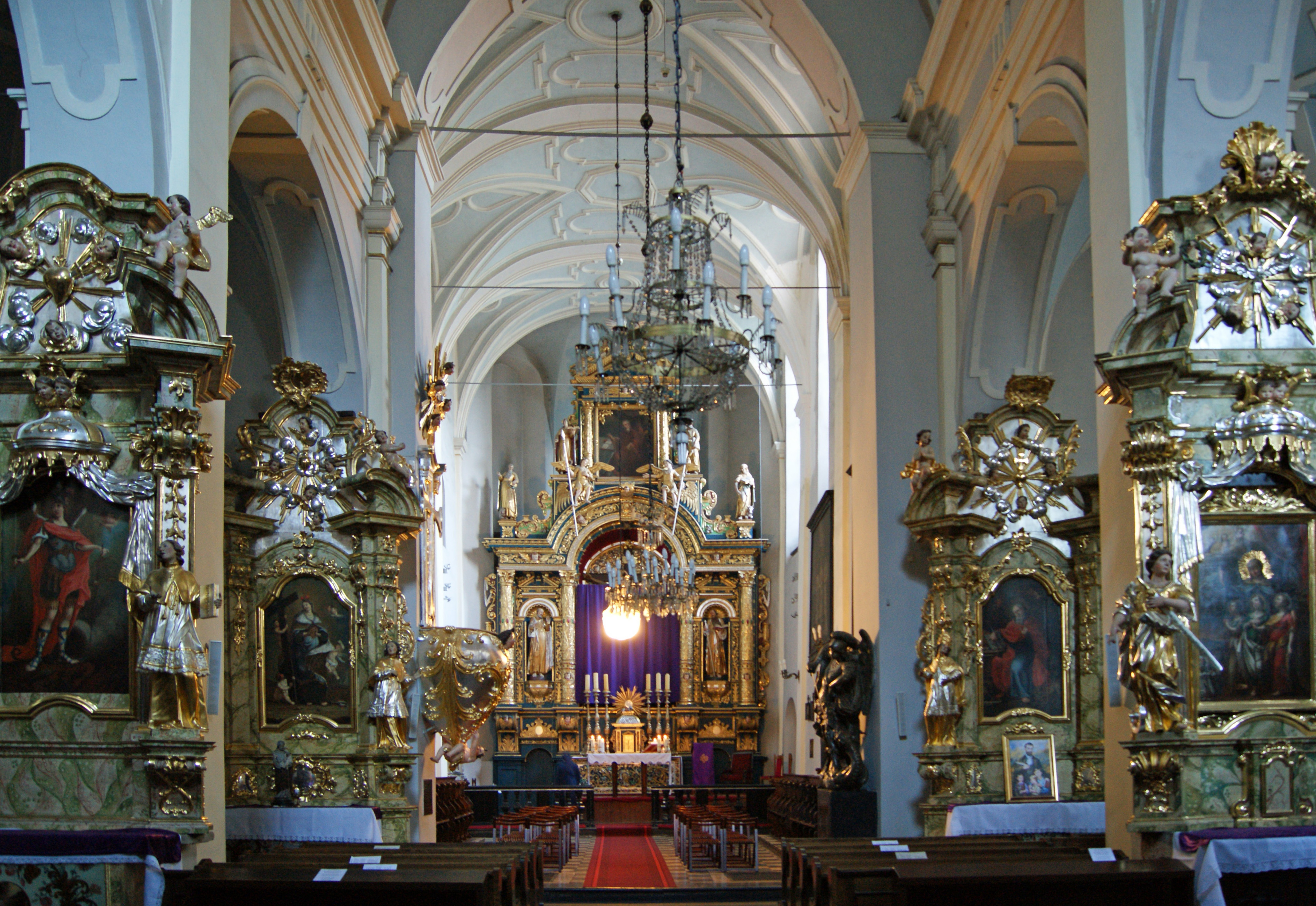 St Mark the Evangelist Church (interior), 10 sw. Marka street, Old Town, Krakow,Poland